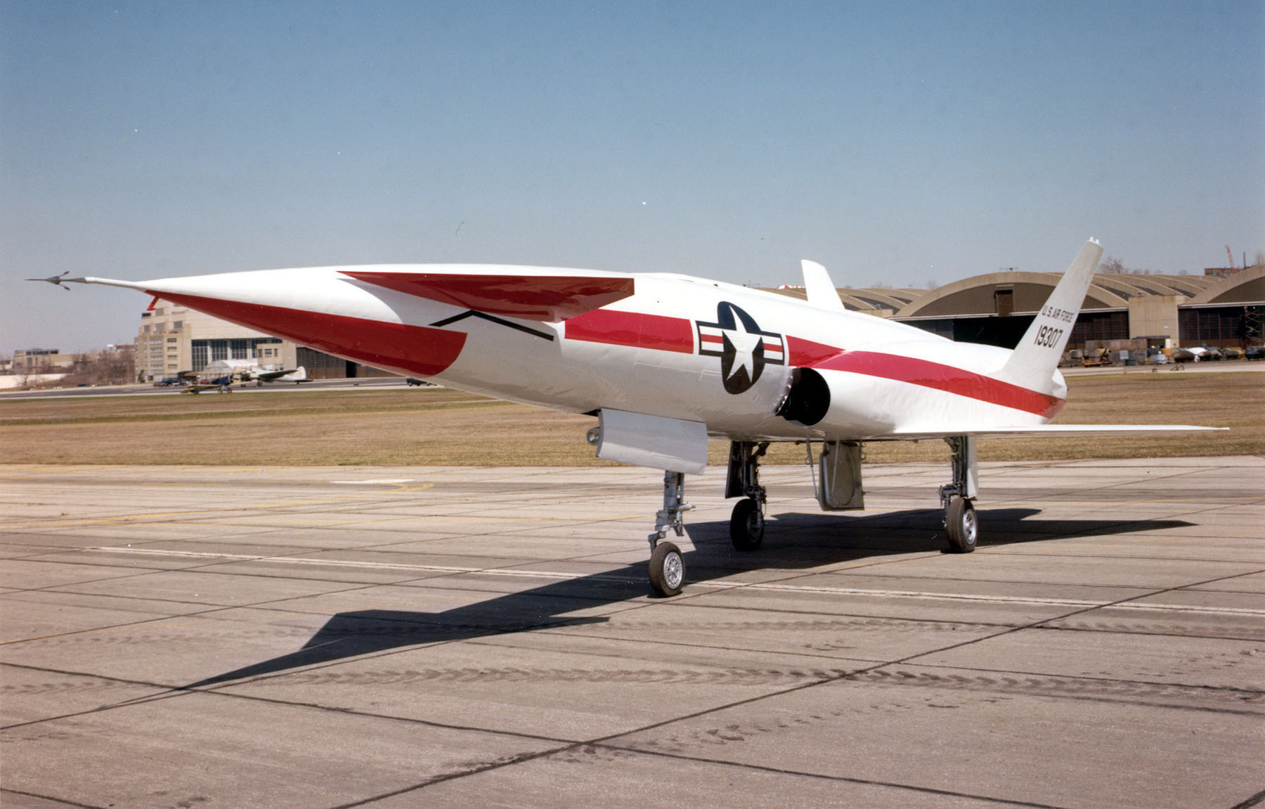 DAYTON, Ohio -- North American X-10 at the National Museum of the United States Air Force.